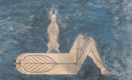 August Natterer: World axis with hare, around 1911/17, Prinzhorn Collection, University of Heidelberg, inv. no. 174